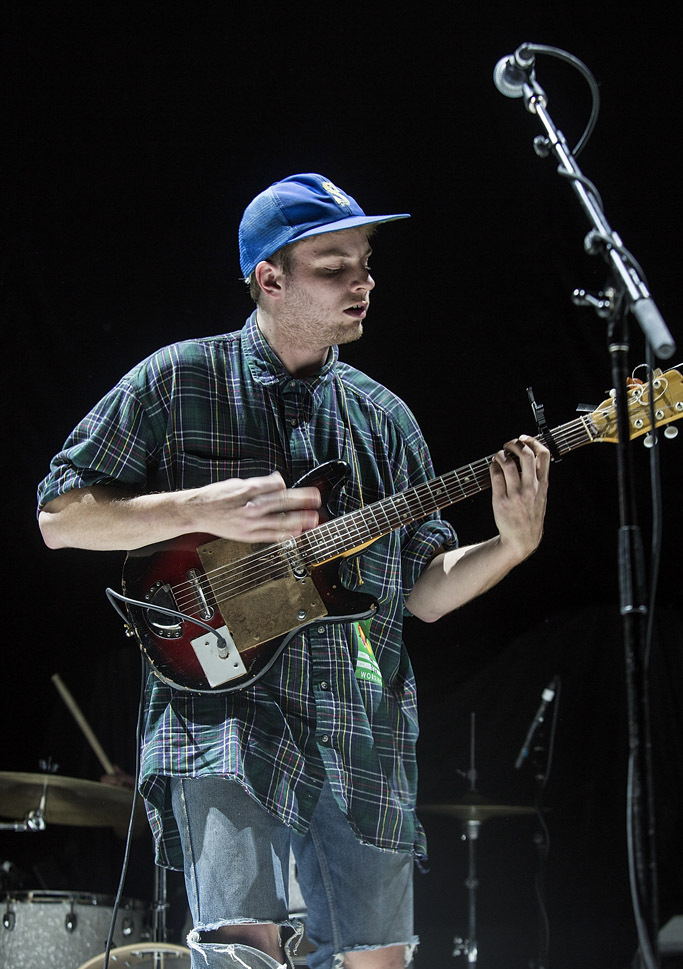 Photos by